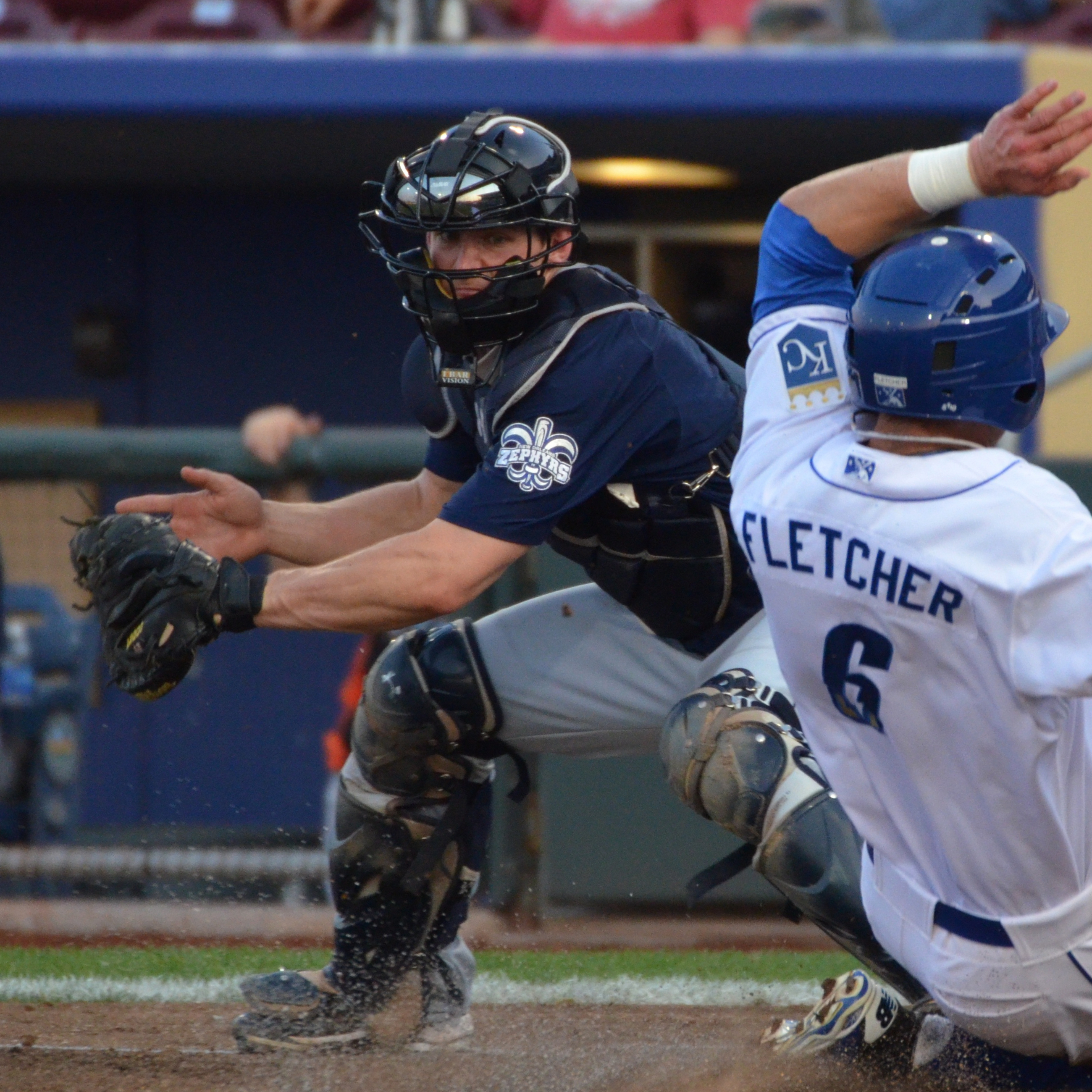 Rob Brantly